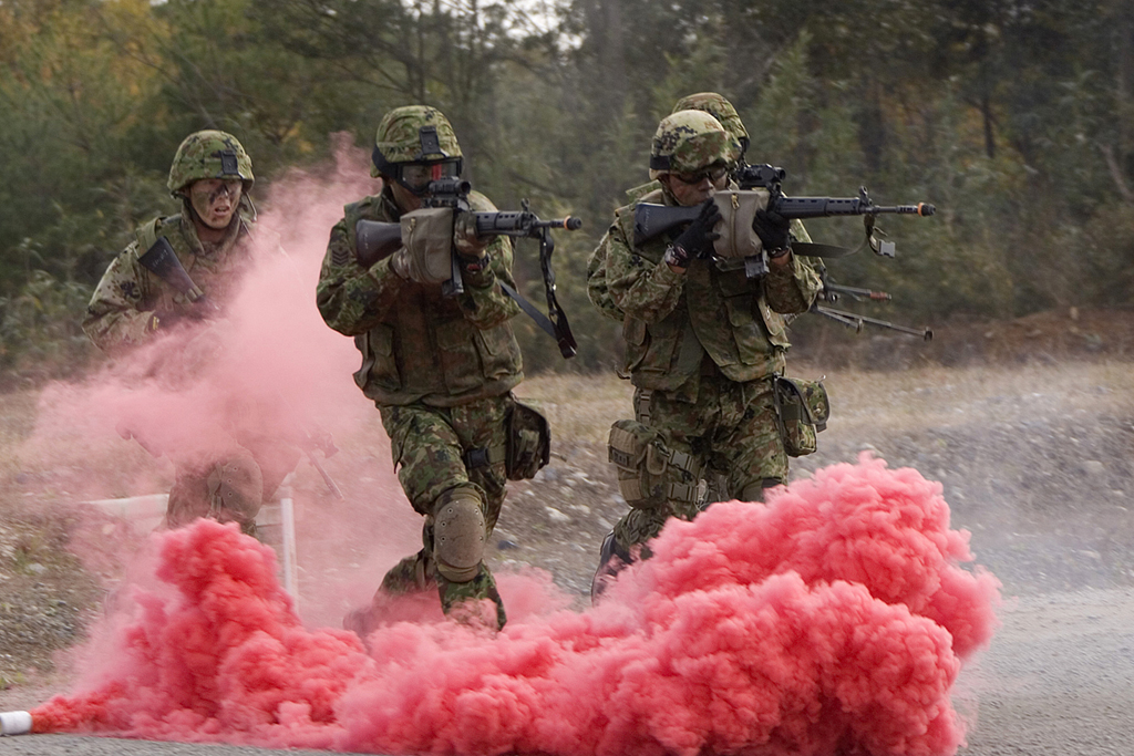 Soldiers with the Japanese Ground Self Defense Force's 15th Regiment, 14th Brigade, Middle Army run across a potentially dangerous street under the cover of red smoke Nov. 13 during Military Operations in Urbanized Terrain training with Marines from G Company, Battalion Landing Team, 2nd Battalion, 1st Marine Regiment, 31st Marine Expeditionary Unit.